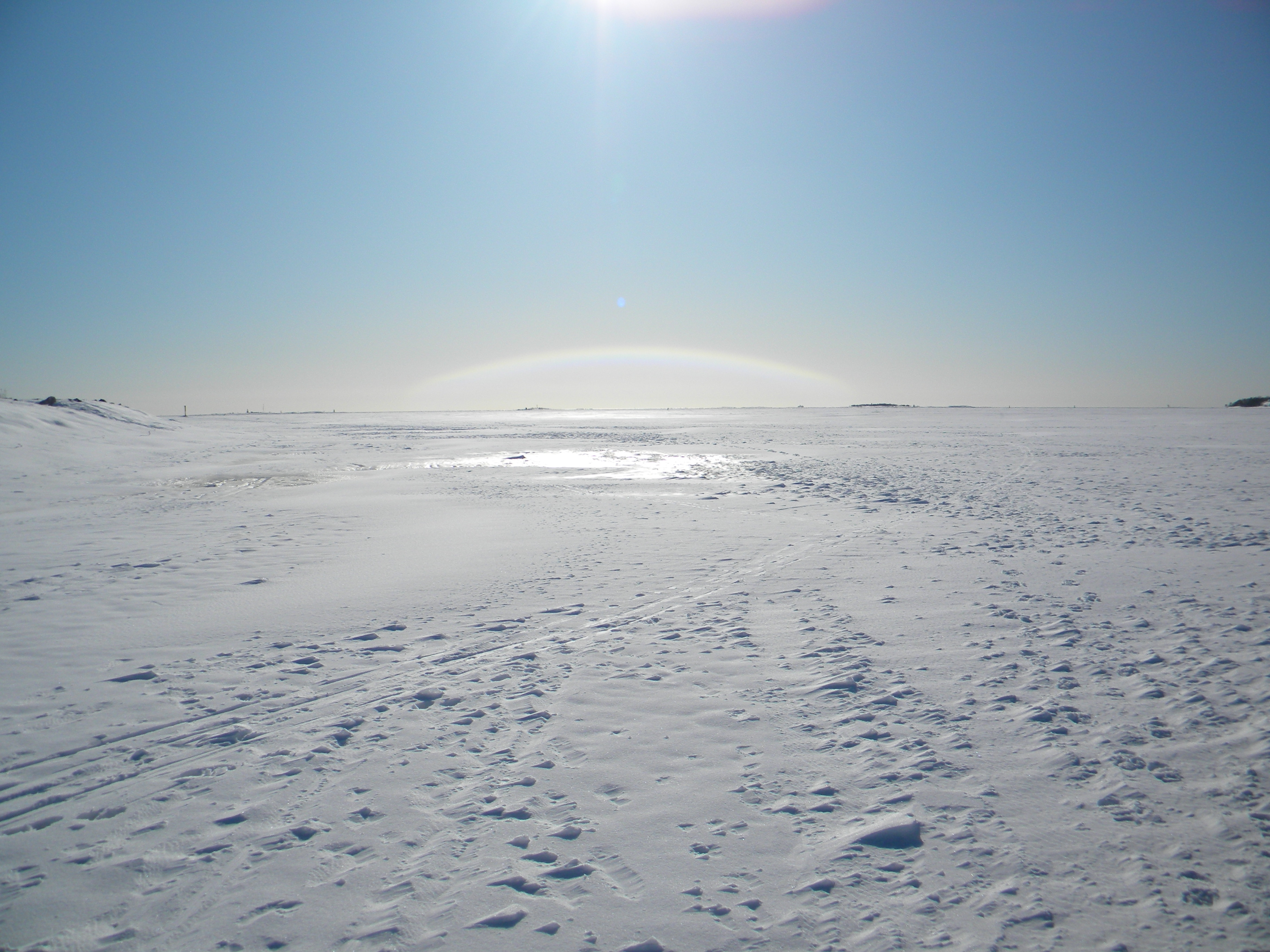 Walking on the ice of the Gulf of Finland, in front of Helsinki, in an icy winter, feeling the space on plain ice, snow, and few islands.